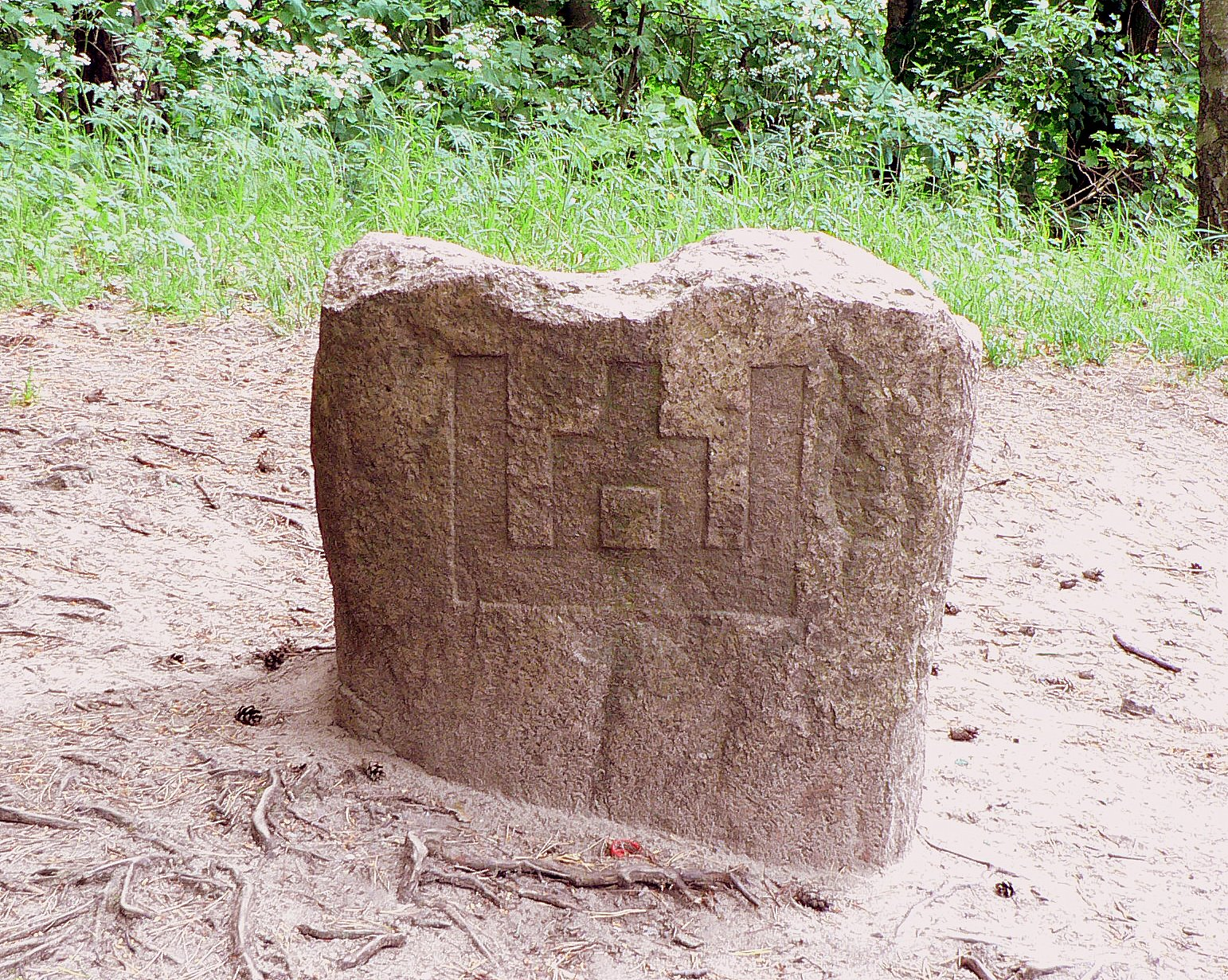 Gedimin columns carved on a stone on Rambynas Hill, Lithuania.